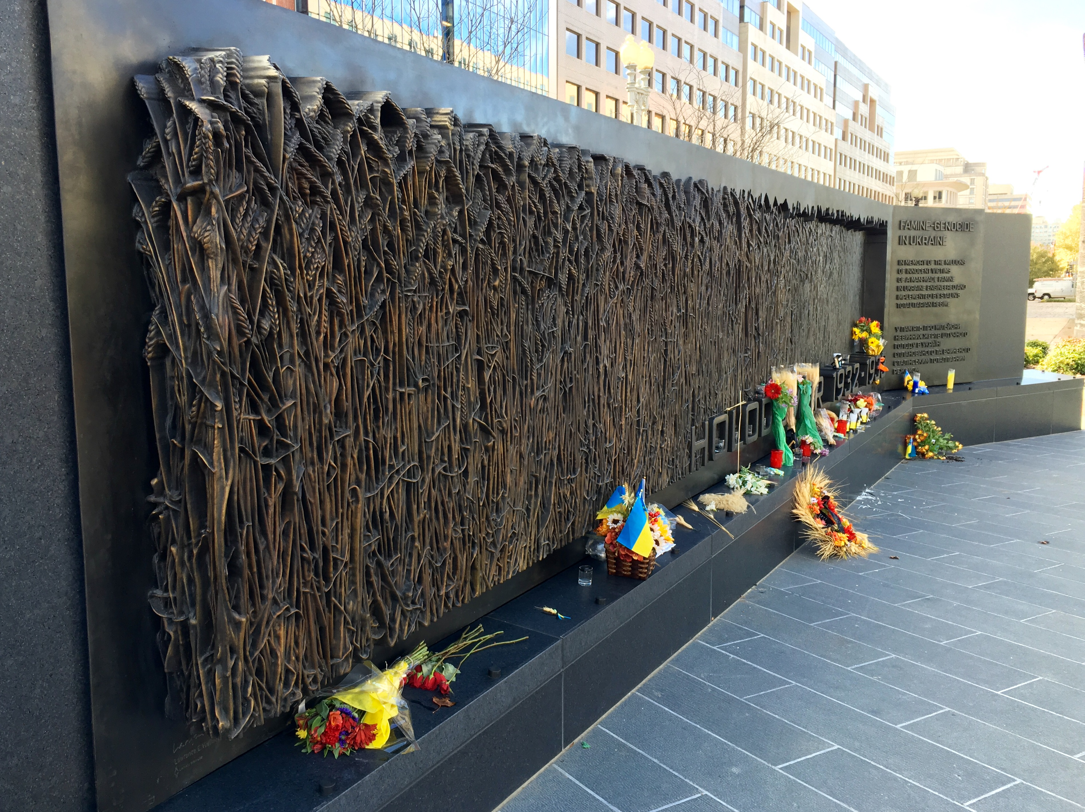 "Holodomor 1932-1933. In memory of millions of innocent victims of a man-made famine in Ukraine, engineered and implemented by Stalin's totalitarian regime." Dedication was on November 7, 2015. Photo taken standing at Mass Ave. looking west-southwest.